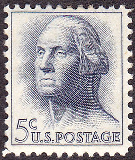 US Postage stamp: Washington, Issue of 1962, 5c, silver-grey